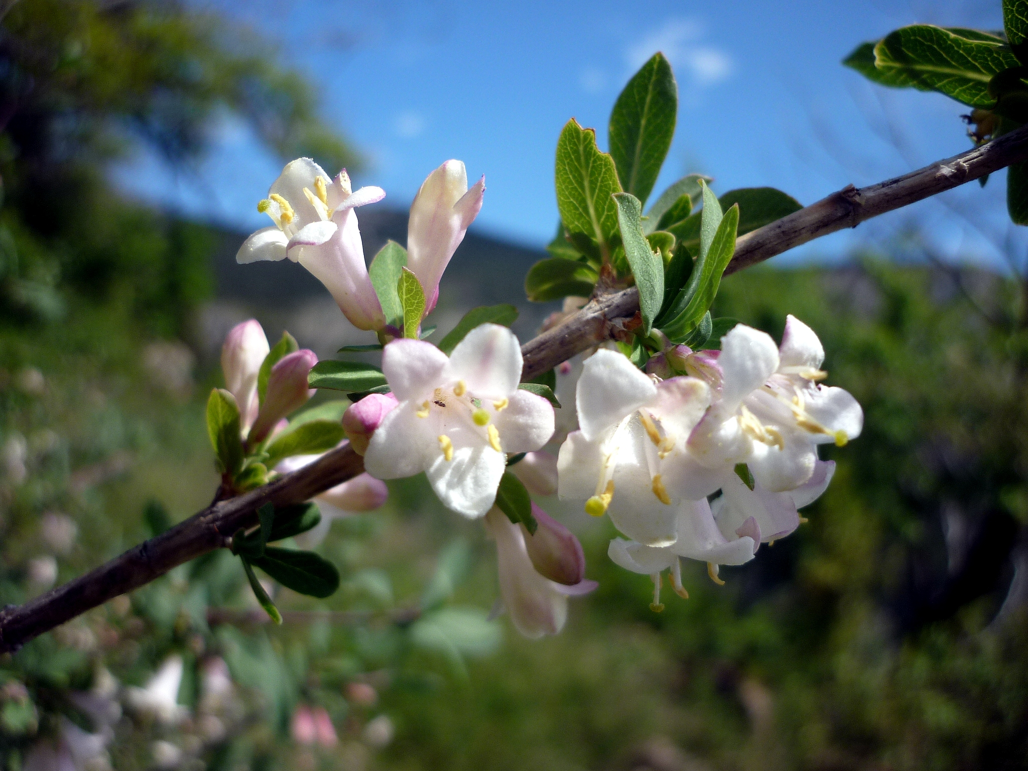 Lonicera pyrenaica. In l'Alzina d'Alinyà (Alt Urgell-Catalunya). To 1.430 m. altitude